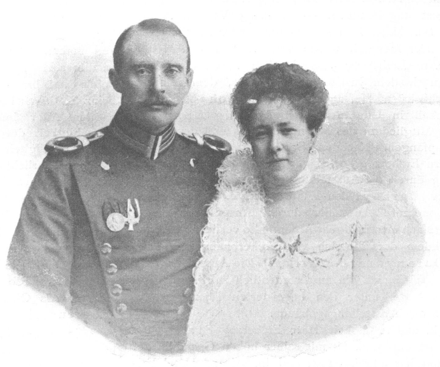 Double portrait of Archduchess Maria Christina of Austria (1879–1962) and her husband Emanuel zu Salm-Salm (1871-1916)